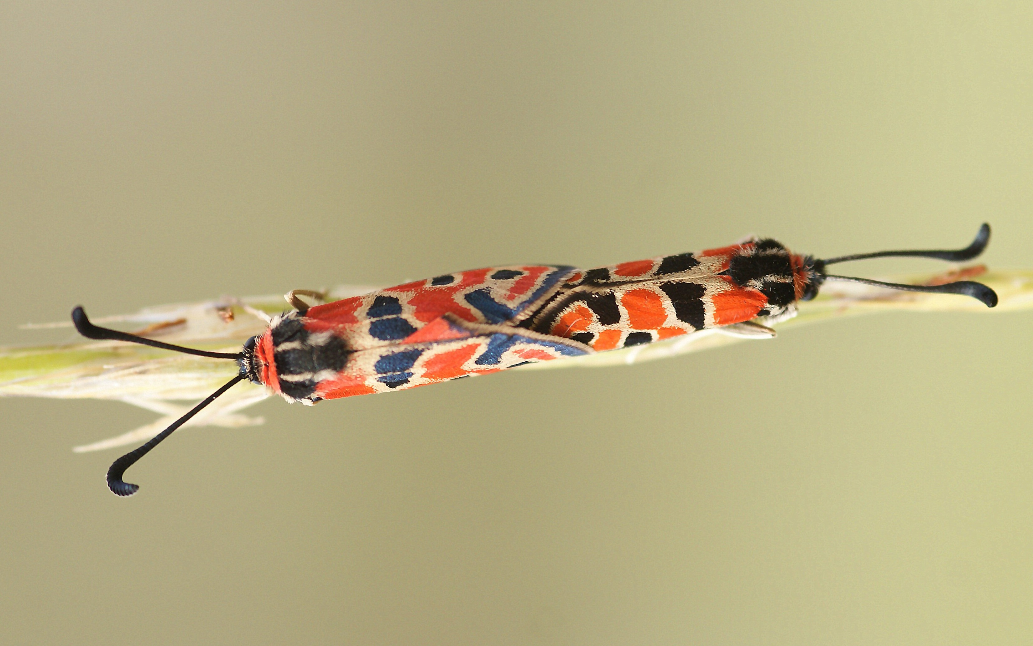 Mating pair of Zygaena fausta aligned tail-to-tail on a grass stalk, the two sexes noticeably different, May 2011, Dordogne, France